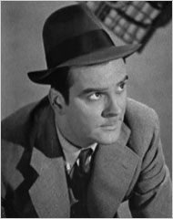 Ralph Byrd acting in the film Dick Tracy's Dilemma (1947).